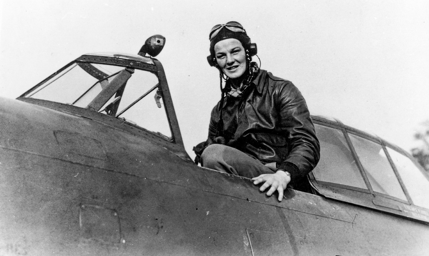 Ralph Kidd Hofer in P-47 Thunderbolt (41-6484) "Sho-Me" of the 4th Fighter Group